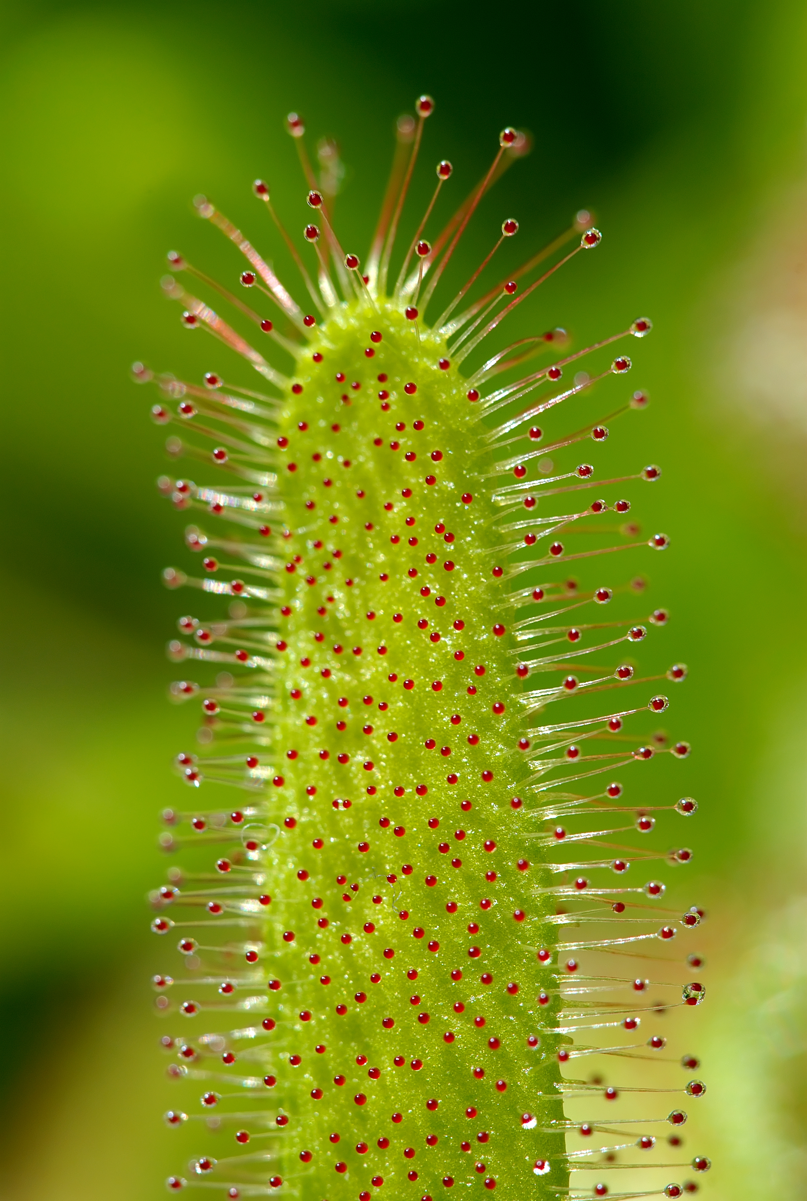 Drosera capensis.